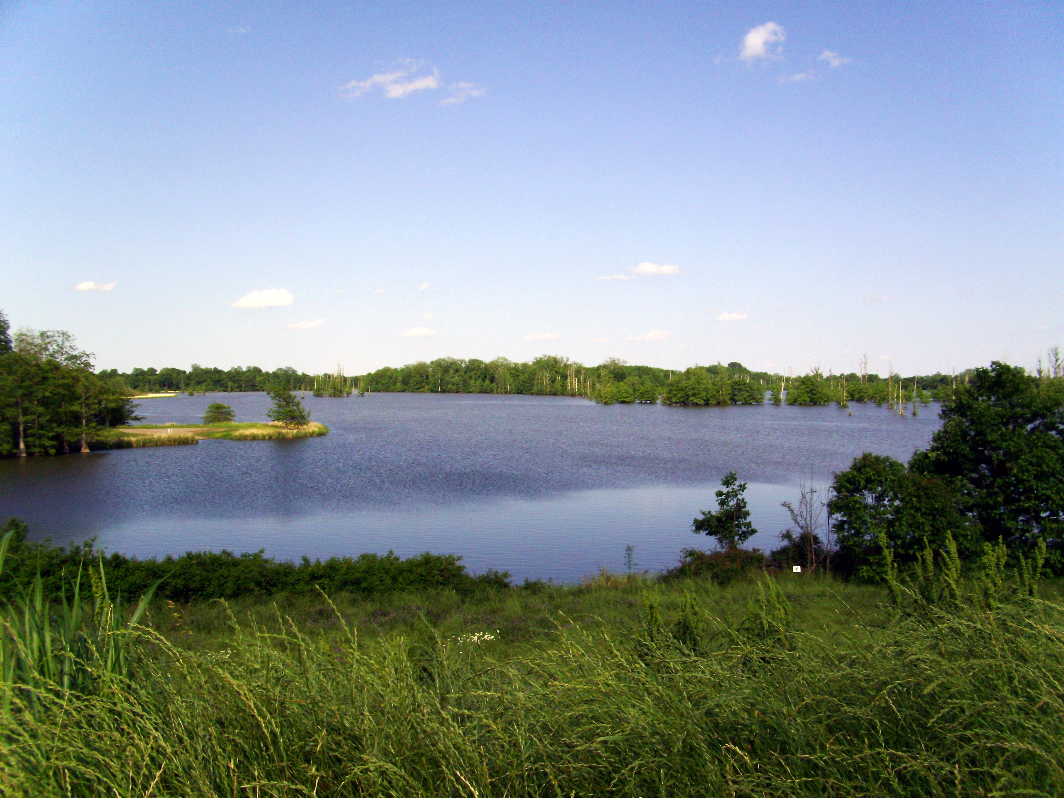 Mud Lake near the Arkansas River